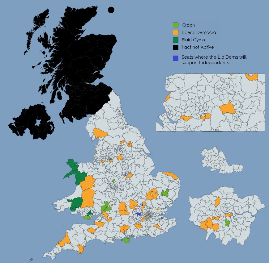 Constituencies where the pact is active. Colored by which party will stand a candidate. Ref